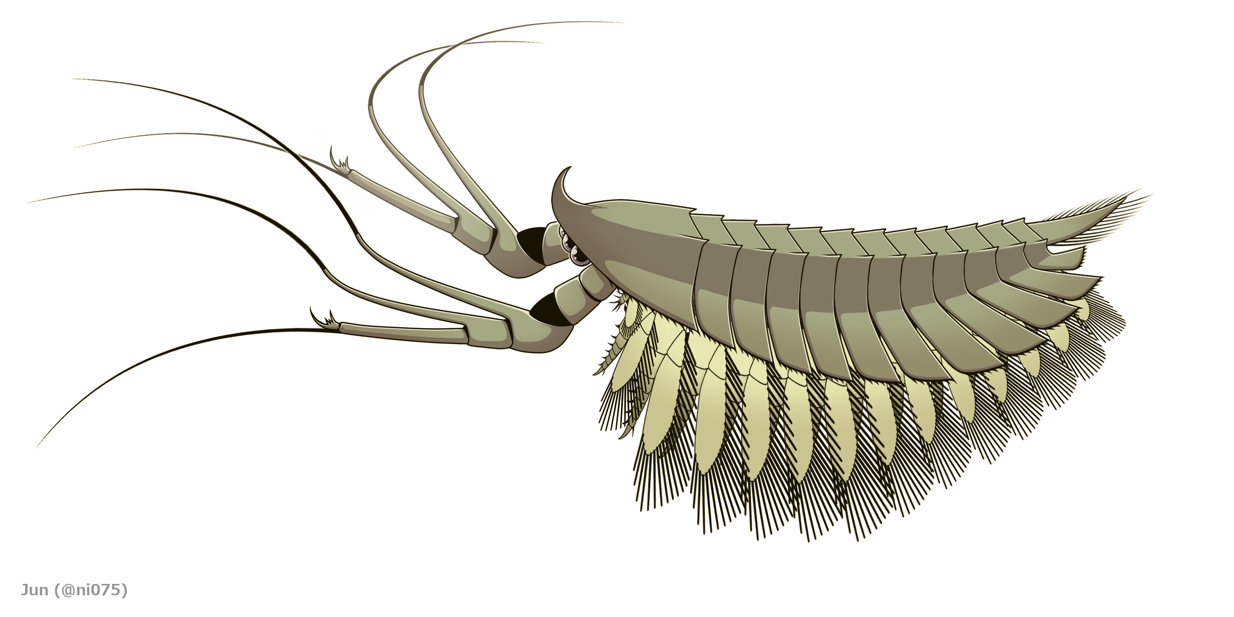 Reconstruction of Leanchoilia superlata, a cambrian megacheiran arthropod.